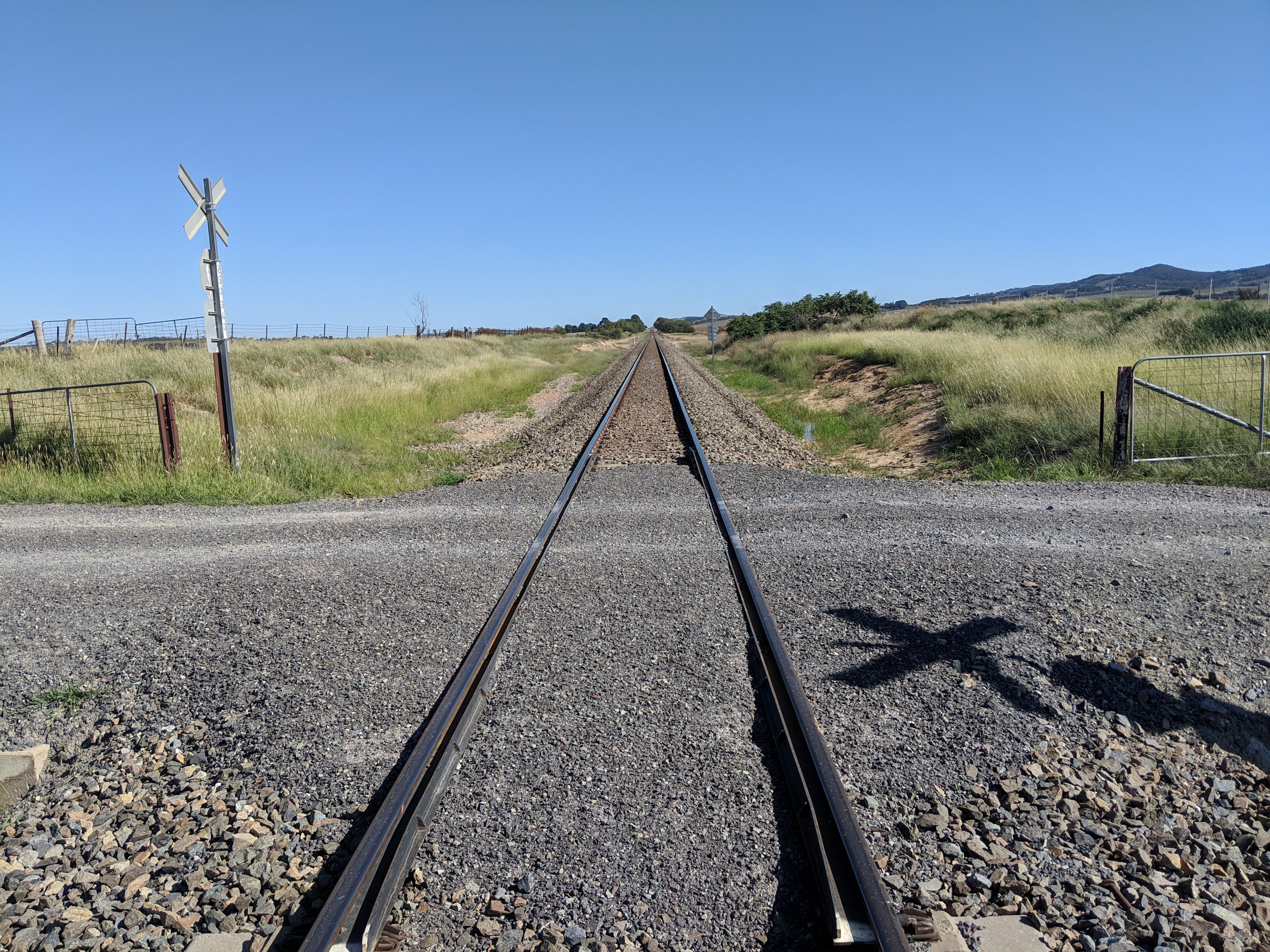 Site of Inverlochy station, Lake Bathurst, New South Wales